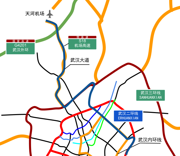 wuhan dadao map in the network